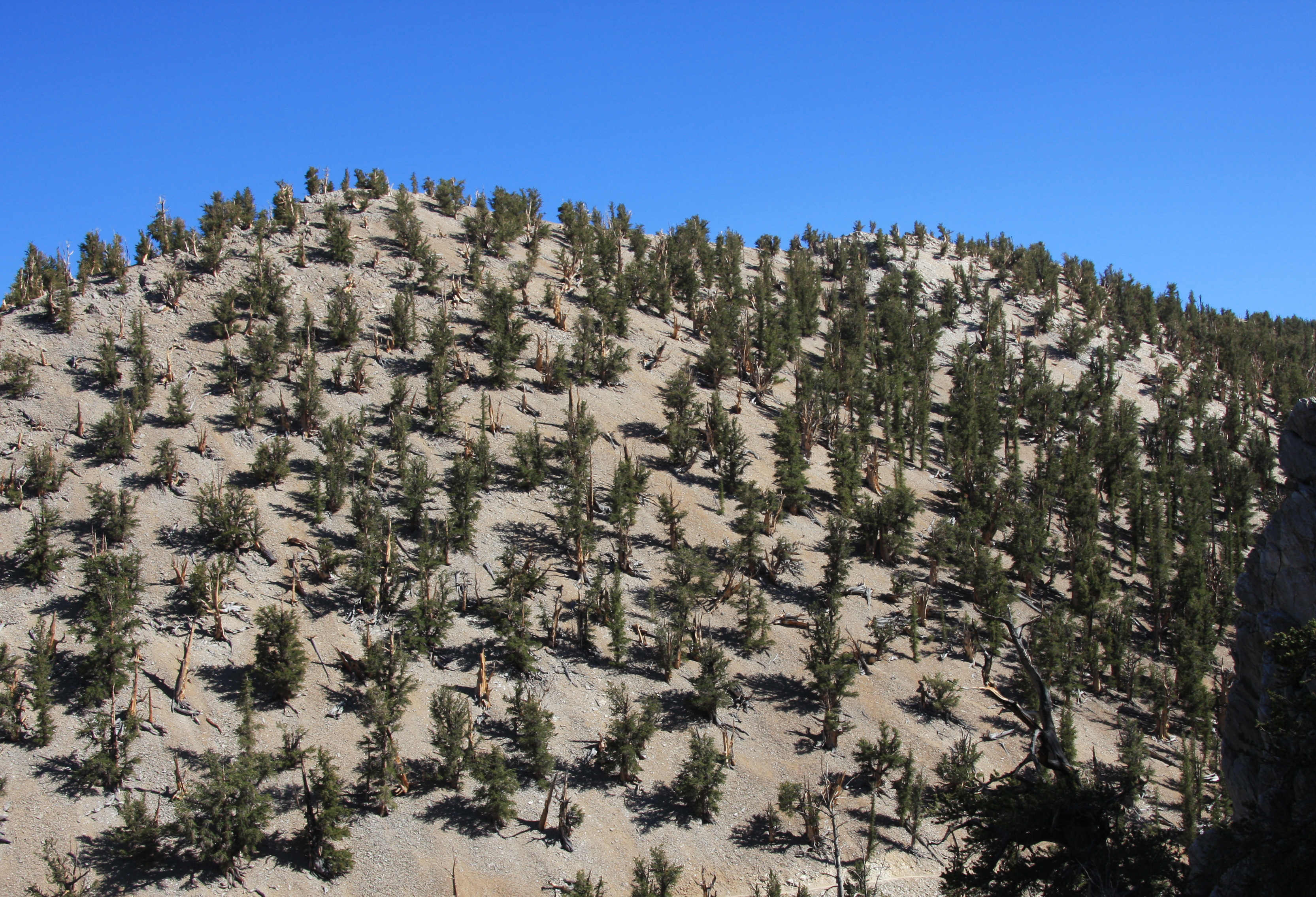 Growth pattern of Great Basin Bristlecone Pine—Pinus longaeva trees, spread sparsely across open hillside underlain with dolomitic rock. View from Methuselah Trail, Schulman Grove in the Ancient Bristlecone Pine Forest of the Inyo National Forest, in the White Mountains, Inyo County, eastern California.